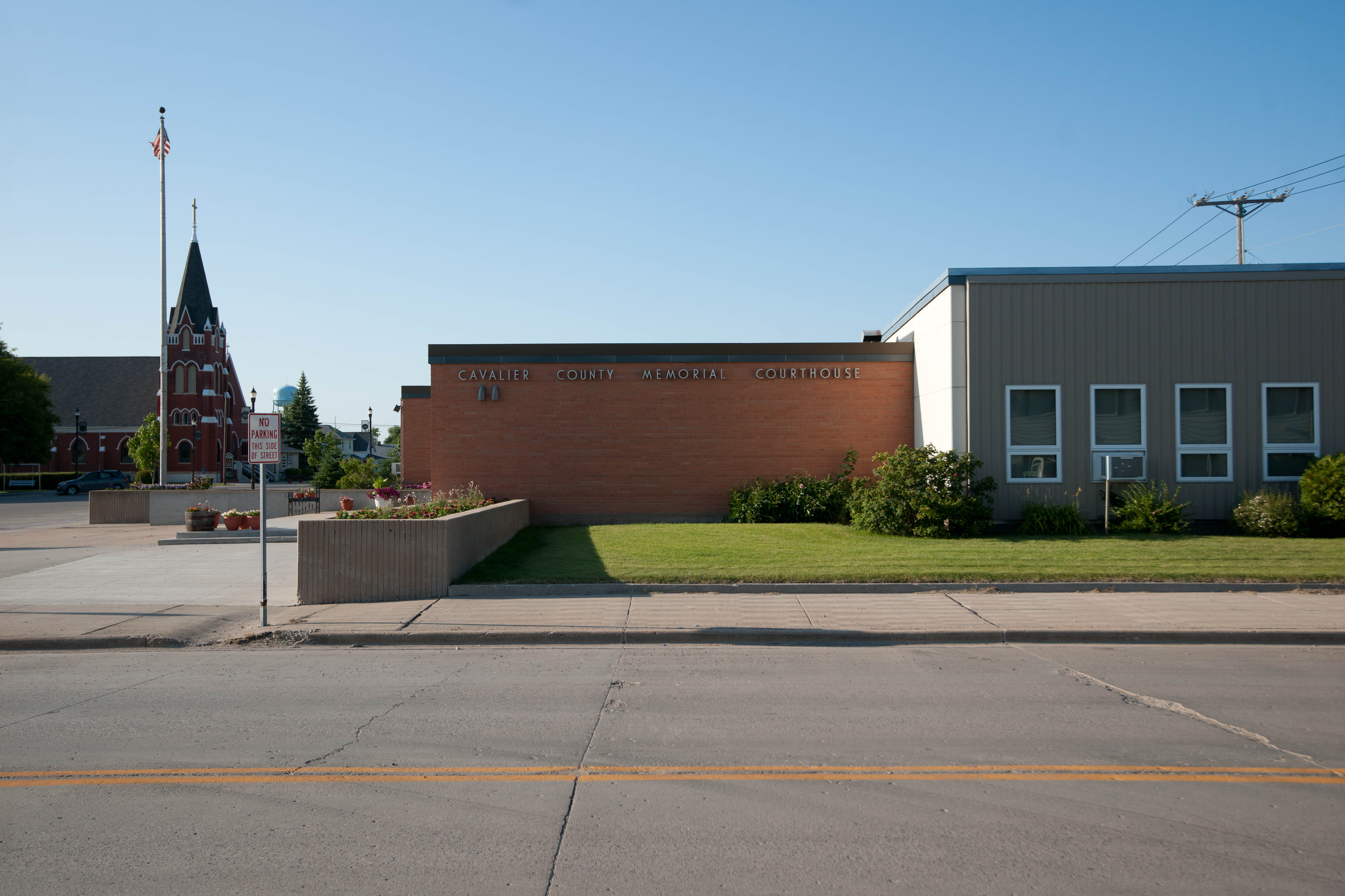 Cavalier County Courthouse in Langdon, North Dakota. From